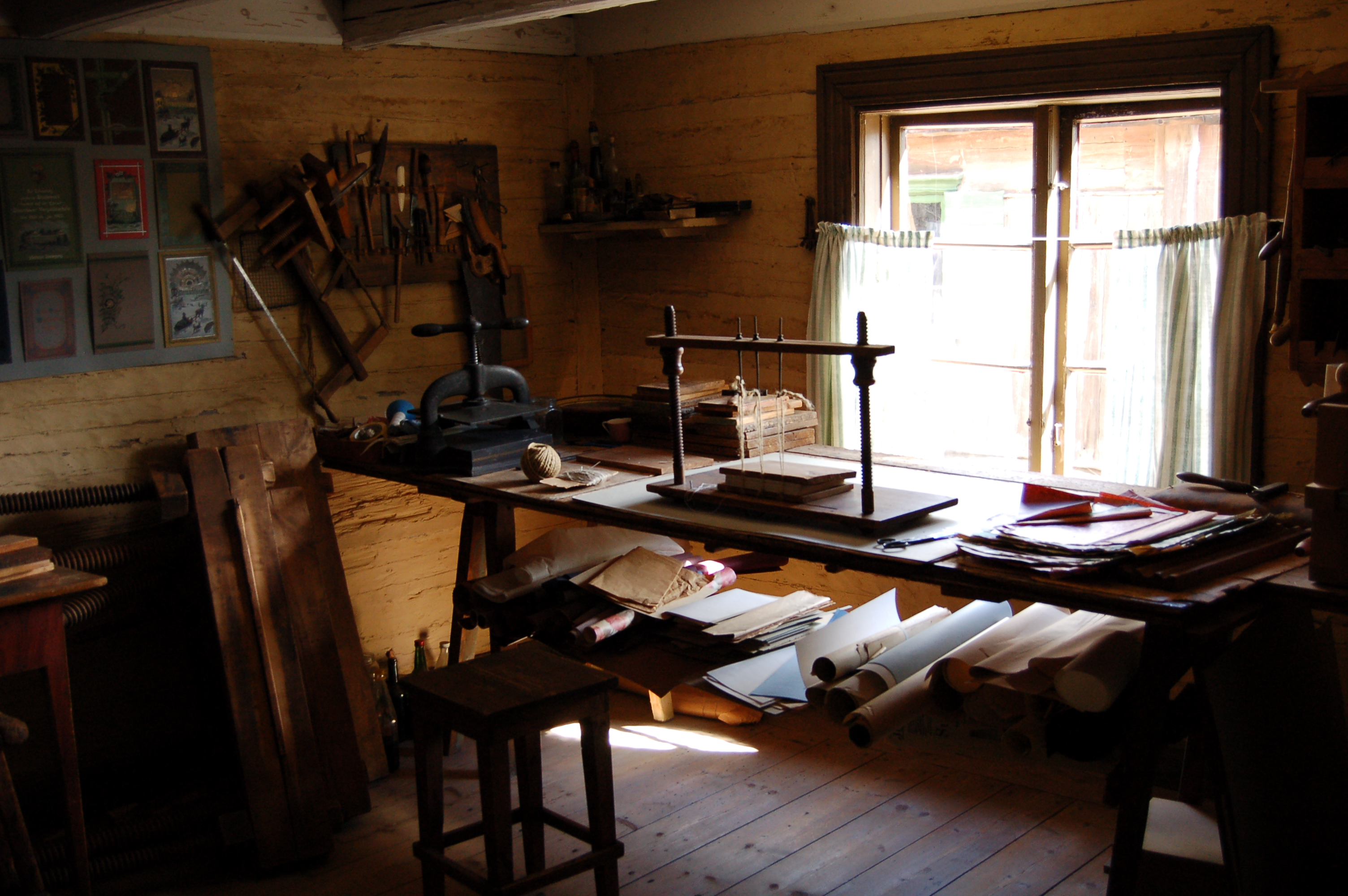 Luostarinmäki Handicrafts Museum